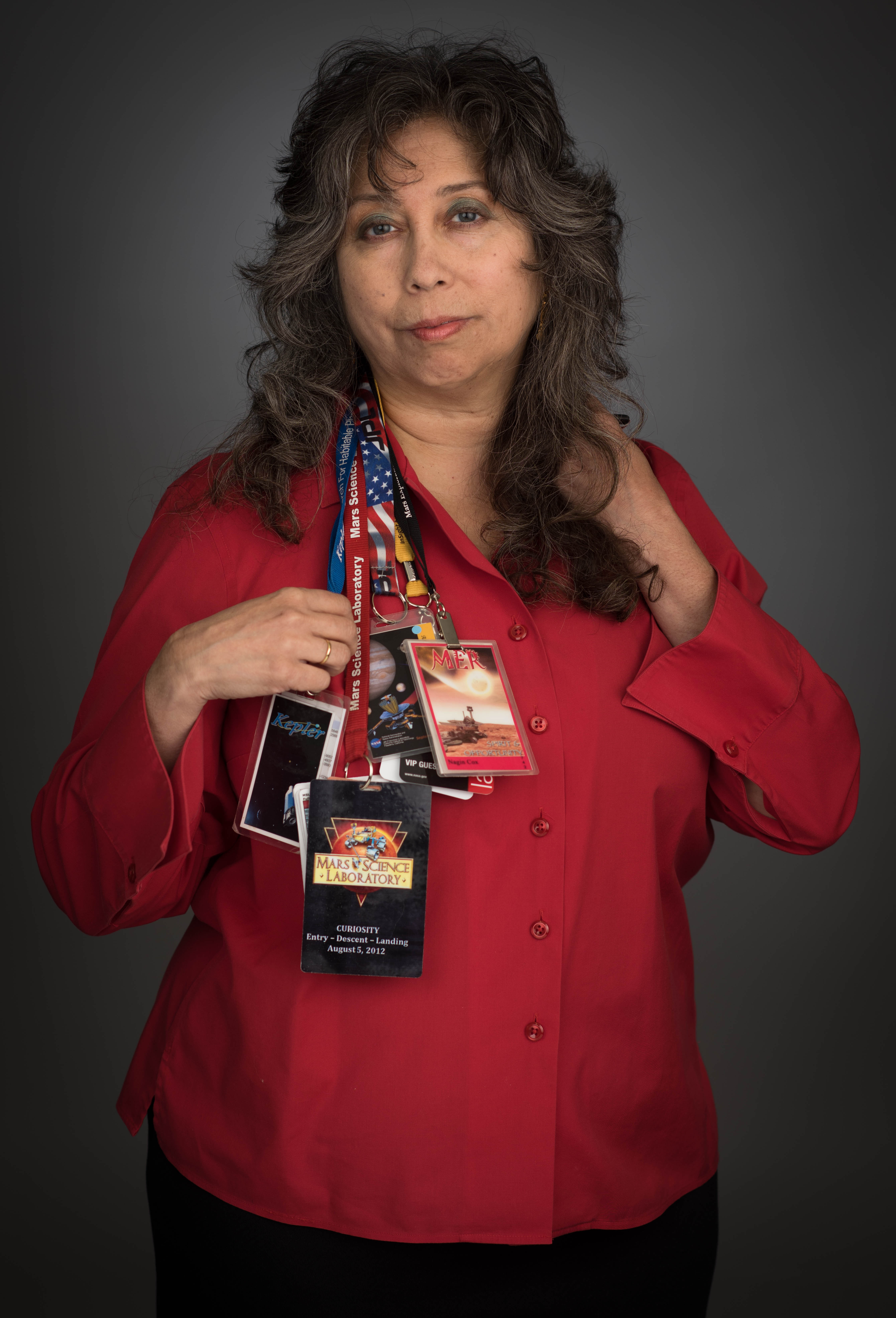 Nagin Cox, NASA Systems Engineer at the Jet Propulsion Laboratory. Proudly wearing her mission lanyards collected from more than two decades at JPL.